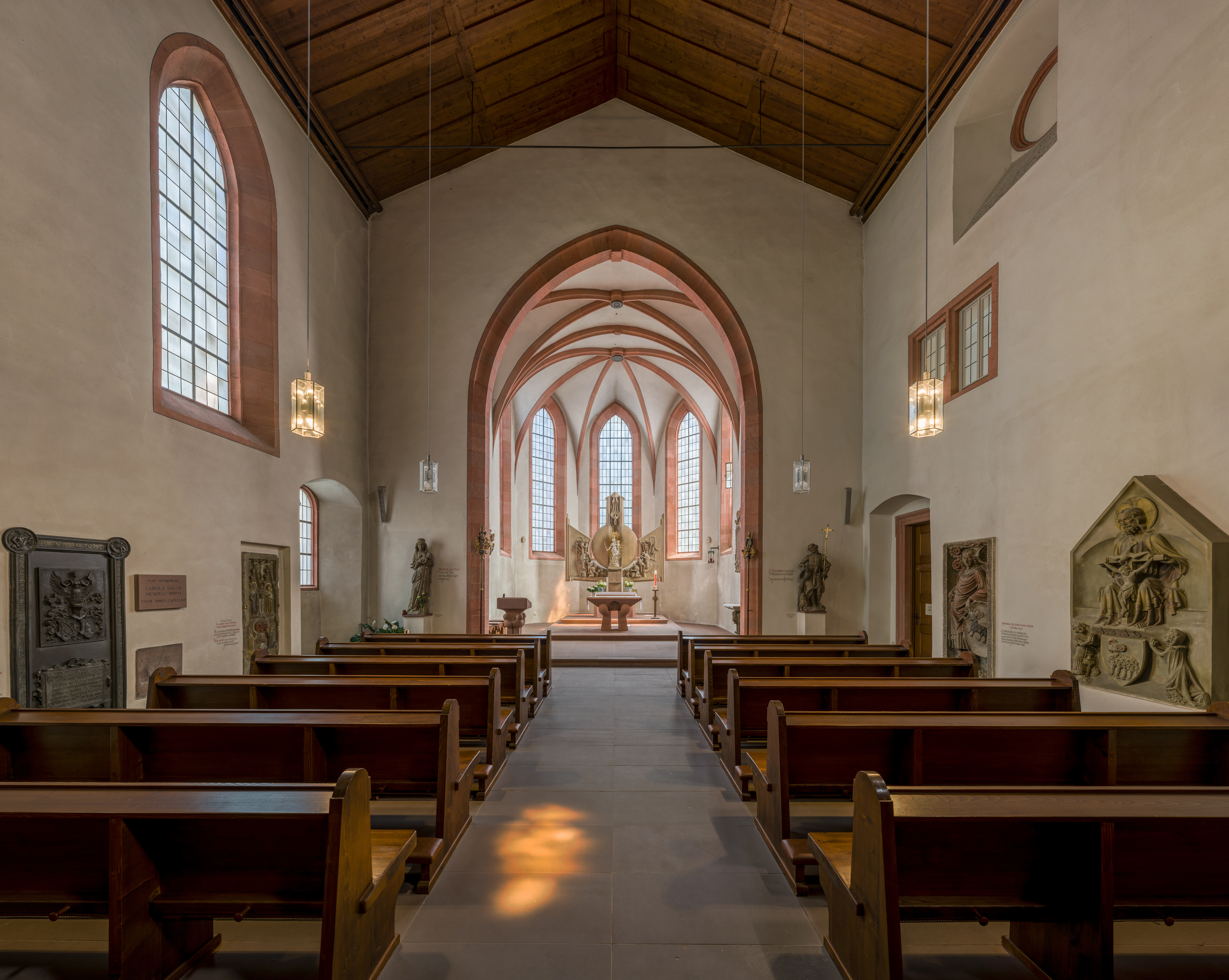 The nave of the church located near the Bürgerspital, WürzburgThis is a photograph of an architectural monument.